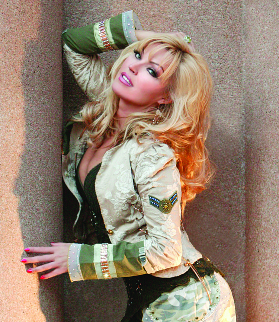 Professional photograph of Kristine W.